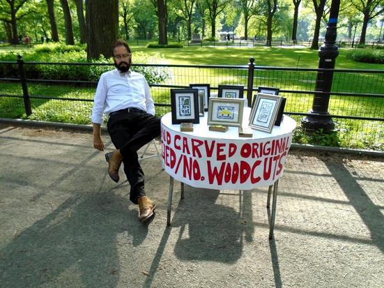 Norm Augustinus selling his art on Literary Walk in Central Park, New York, NY.